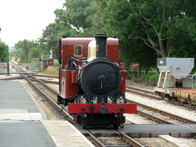 Steam locomotive at Port Erin Station